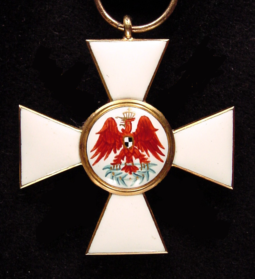 shows a simple Red Eagle Order III. class, 4th model, as used between 1854 - 1918